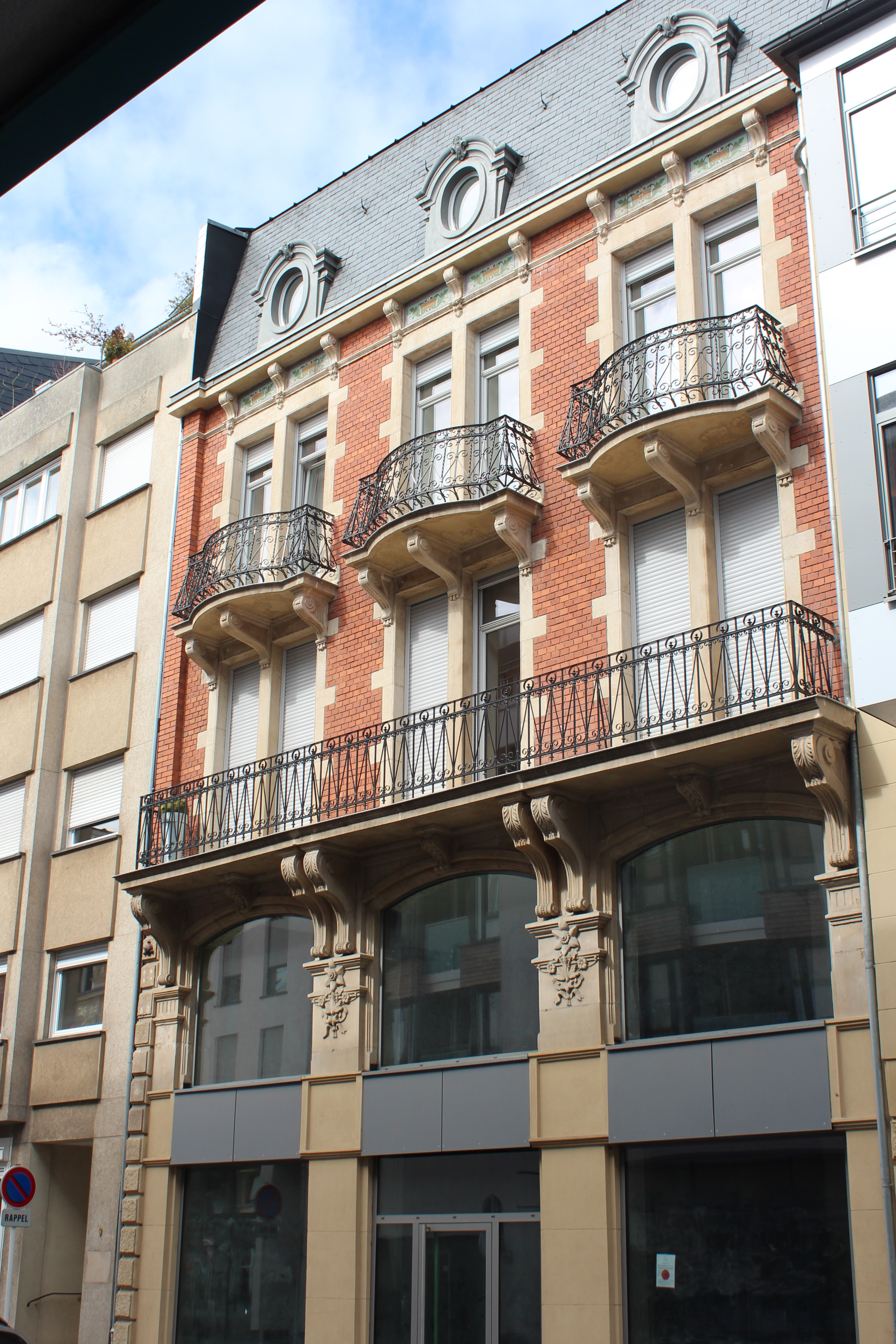 11 rue de Luxembourg, Esch-sur-Alzette (former hardware store Buchholtz & Ettinger)